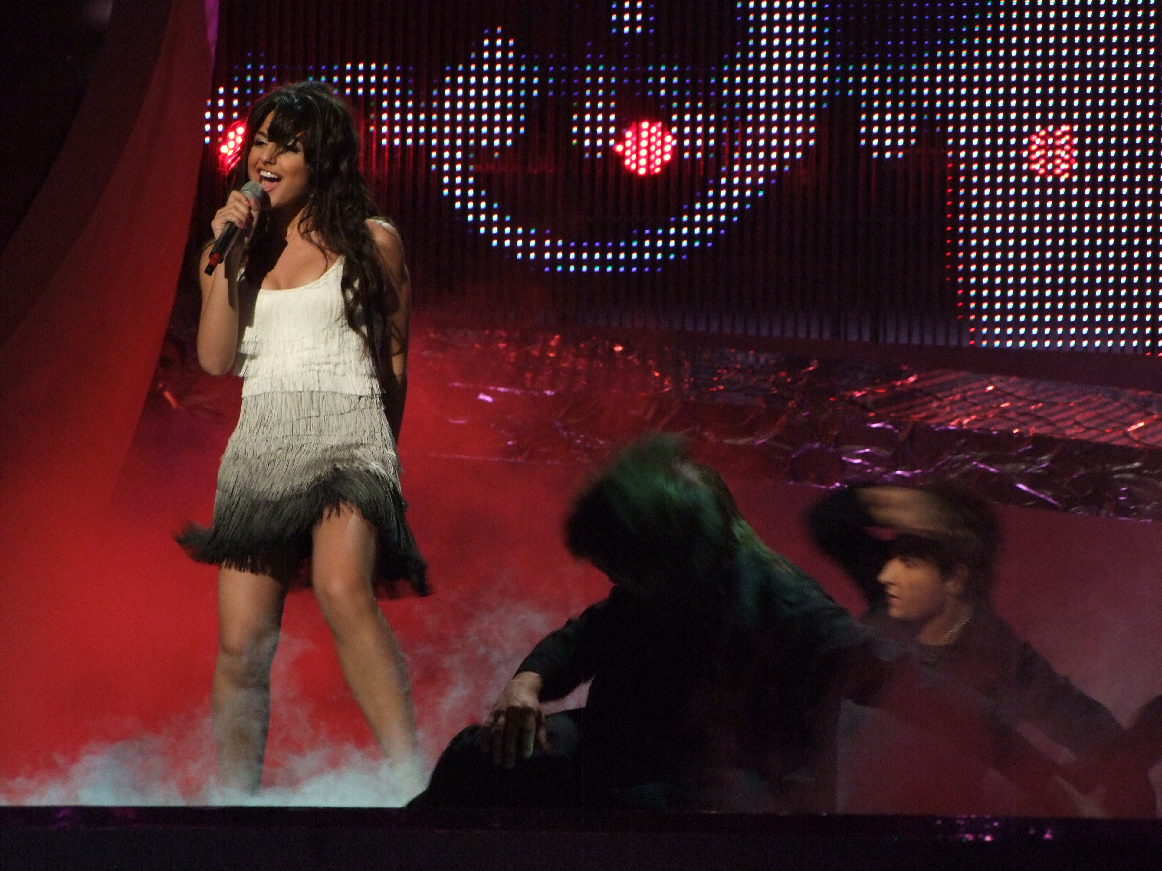 Sirusho, representative of Armenia in Eurovision Song Contest 2008. Taken in Belgrade, 2008. Personality rights warningAlthough this work is freely licensed or in the public domain, the person(s) shown may have rights that legally restrict certain re-uses unless those depicted consent to such uses. In these cases, a model release or other evidence of consent could protect you from infringement claims.